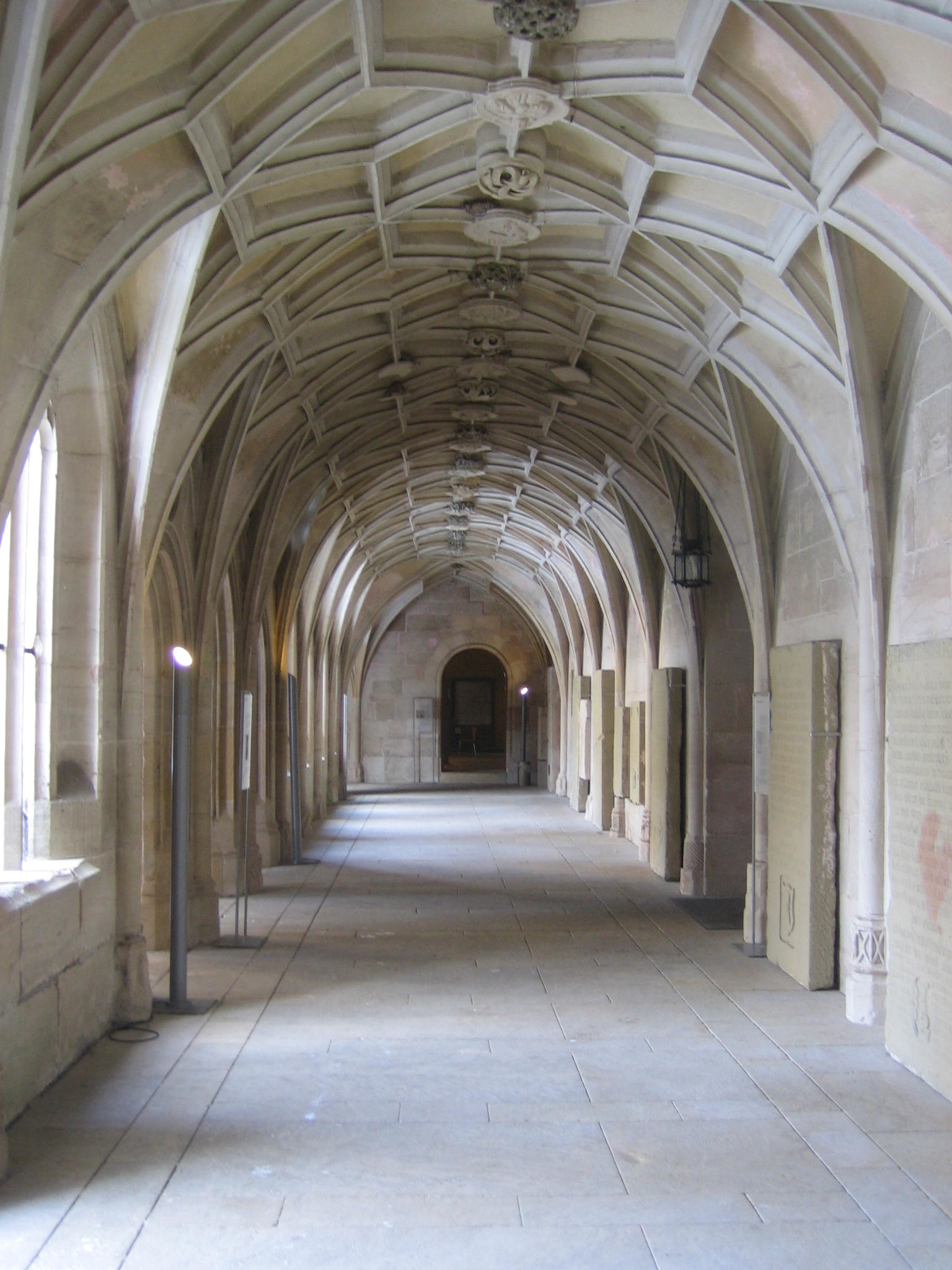 This picture was taken by Benutzer:Prissantenbär (Lion Hirth) at february the 5th of 2006 and published as public domain.